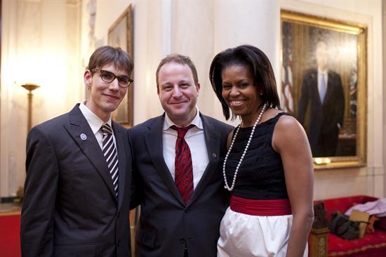 Marlon Reis (left) with his partner, Representative Jared Polis (center) and First Lady Michelle Obama (right).